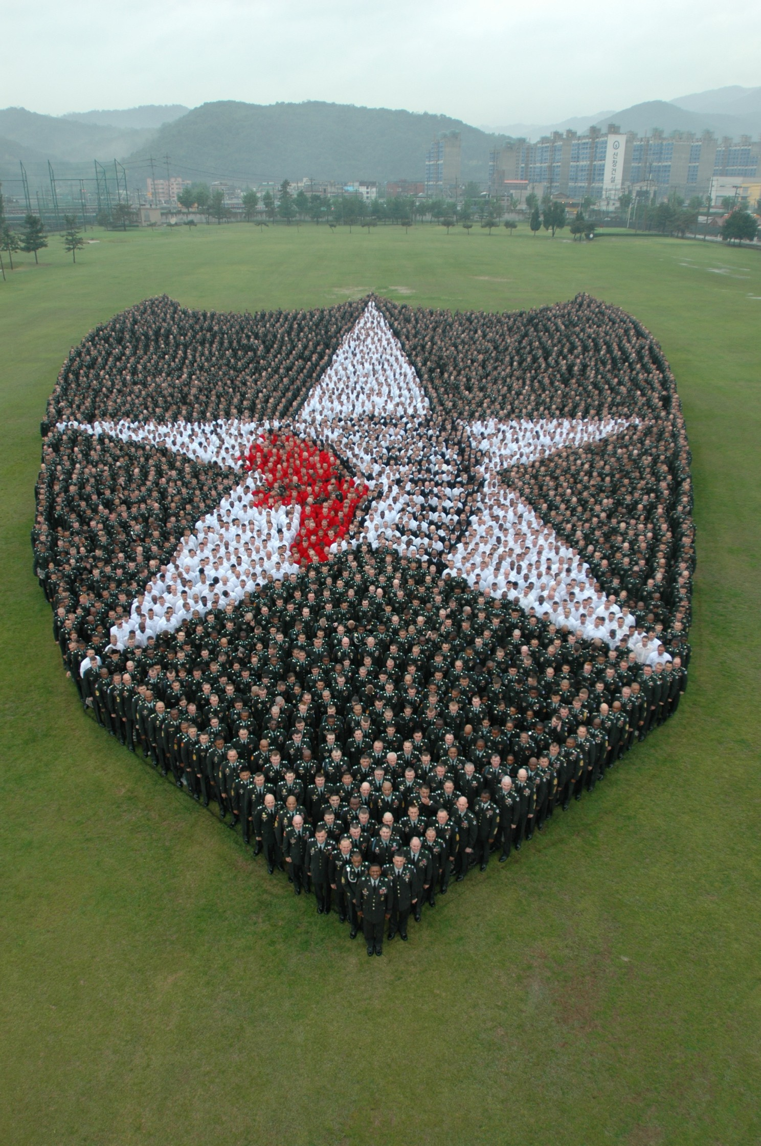 Approximately 5,000 Warriors from the 2nd Infantry Division created a human version of the division's distinctive Indianhead patch for only the second time in an organizational history dating from World War I Thursday morning (May 21) at Indianhead Stage Field on Camp Casey, Korea. A steady drizzle that persisted throughout the event may have dampened the Warriors' wet weather gear and dress uniforms but it didn't dampen the Soldiers' resolve to take part in an historic event. Organizers placed the first human elements of the division patch around 6 a.m. and continued to build the insignia throughout the early morning, adding Warriors to the massive formation as they marched onto the field as companies, platoons and detachments. Various dress uniforms replicated the insignia color scheme.